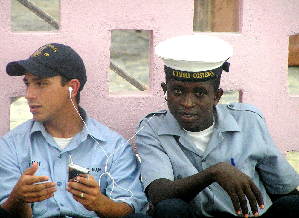 SÃO TOMÉ AND PRÍNCIPE (March 8, 2007) - Seaman Apprentice Dustin Eckhart shares a friendly moment with a coast guardsman from São Tomé and Príncipe. A native of Columbus, Ind., Eckhart was waiting at fleet landing to return to guided missile frigate USS Kauffman (FFG 59) when he was approached by the local sailor and asked what kind of music American Sailors listen to. Rather than tell him, Eckhart shared the iPod with his new shipmate so he could listen along. Currently deployed to the Gulf of Guinea, Kauffman conducted a four-day port visit to the African island nation of São Tomé and Príncipe to strengthen maritime partnerships. U.S. Navy photo by Lt. William Nesbitt (RELEASED)